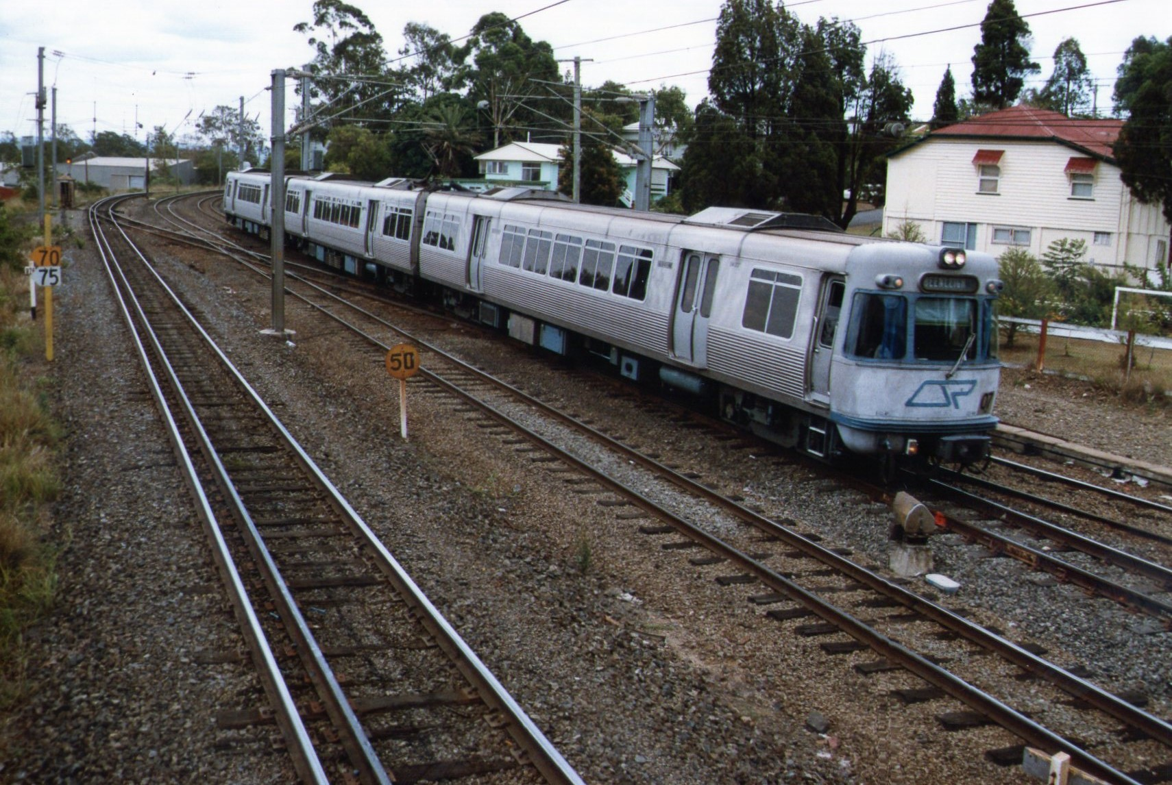 QR EMU unit 07 in original colour scheme on a Beenleigh bound train at Coopers Plains, ~1987